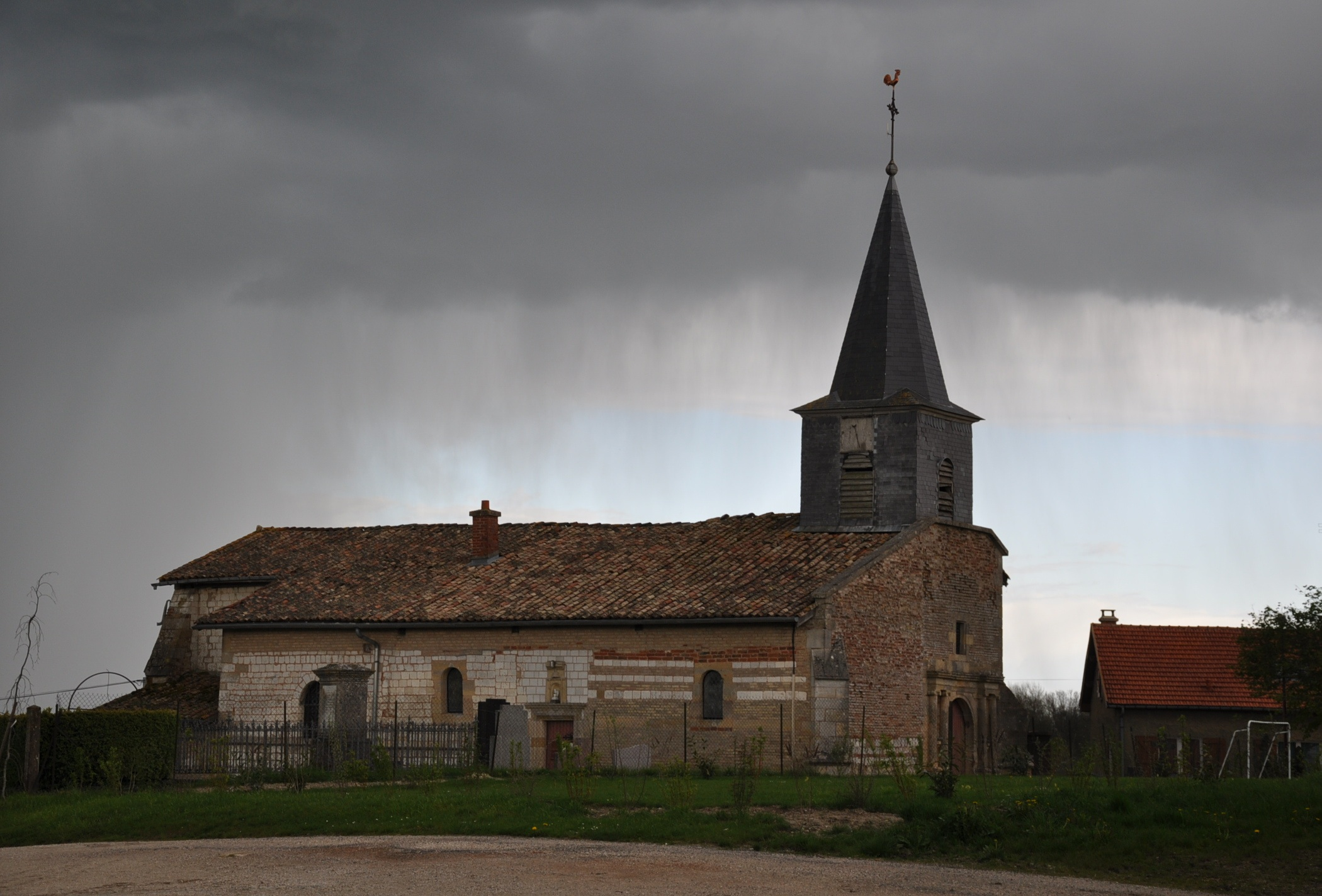 Church of Braux-Saint-Remy in the rain (canton Sainte-Menehould, Marne department, Champagne-Ardenne region, France).